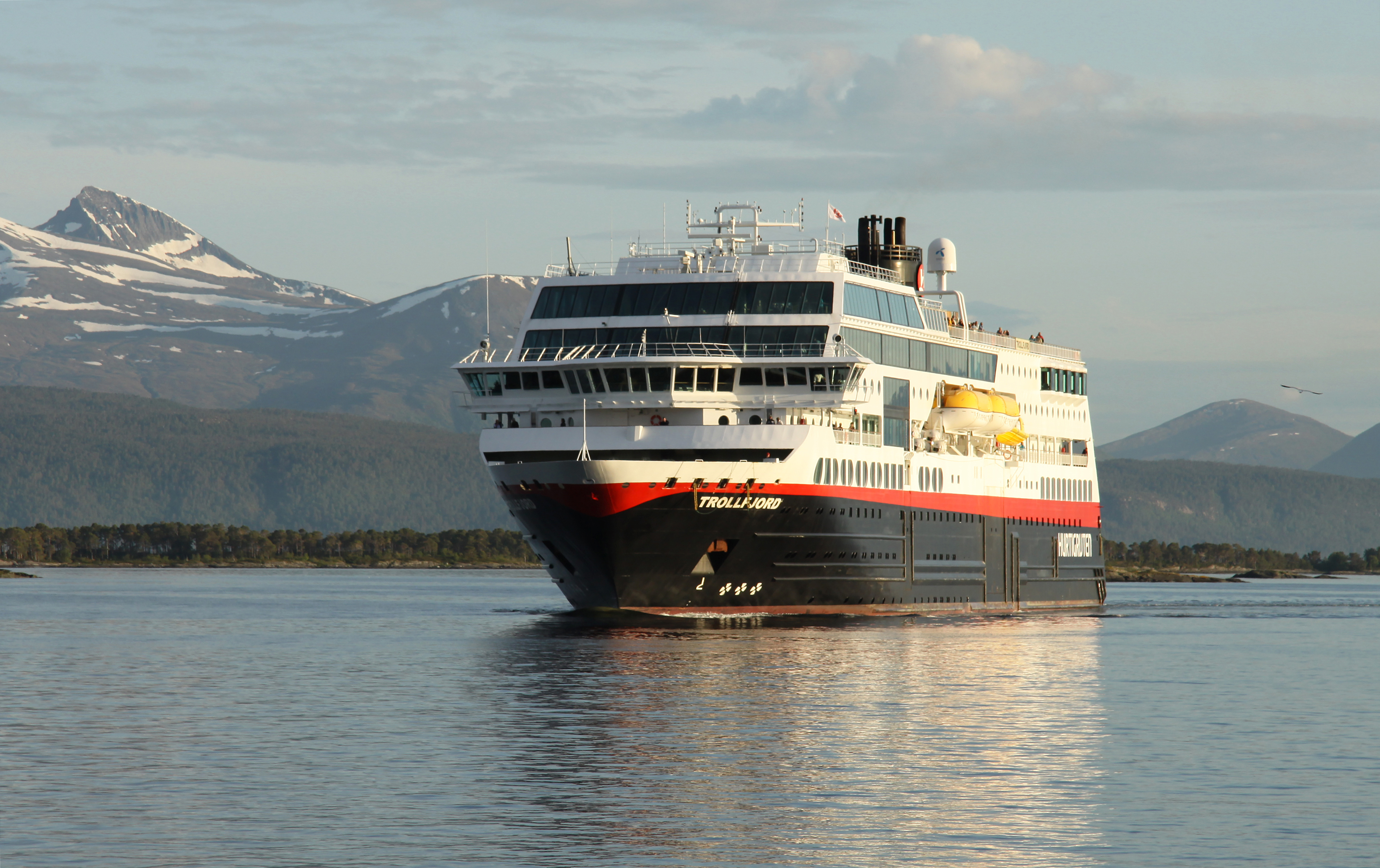 Hurtigruten ship MS Trollfjord in Molde, Norway